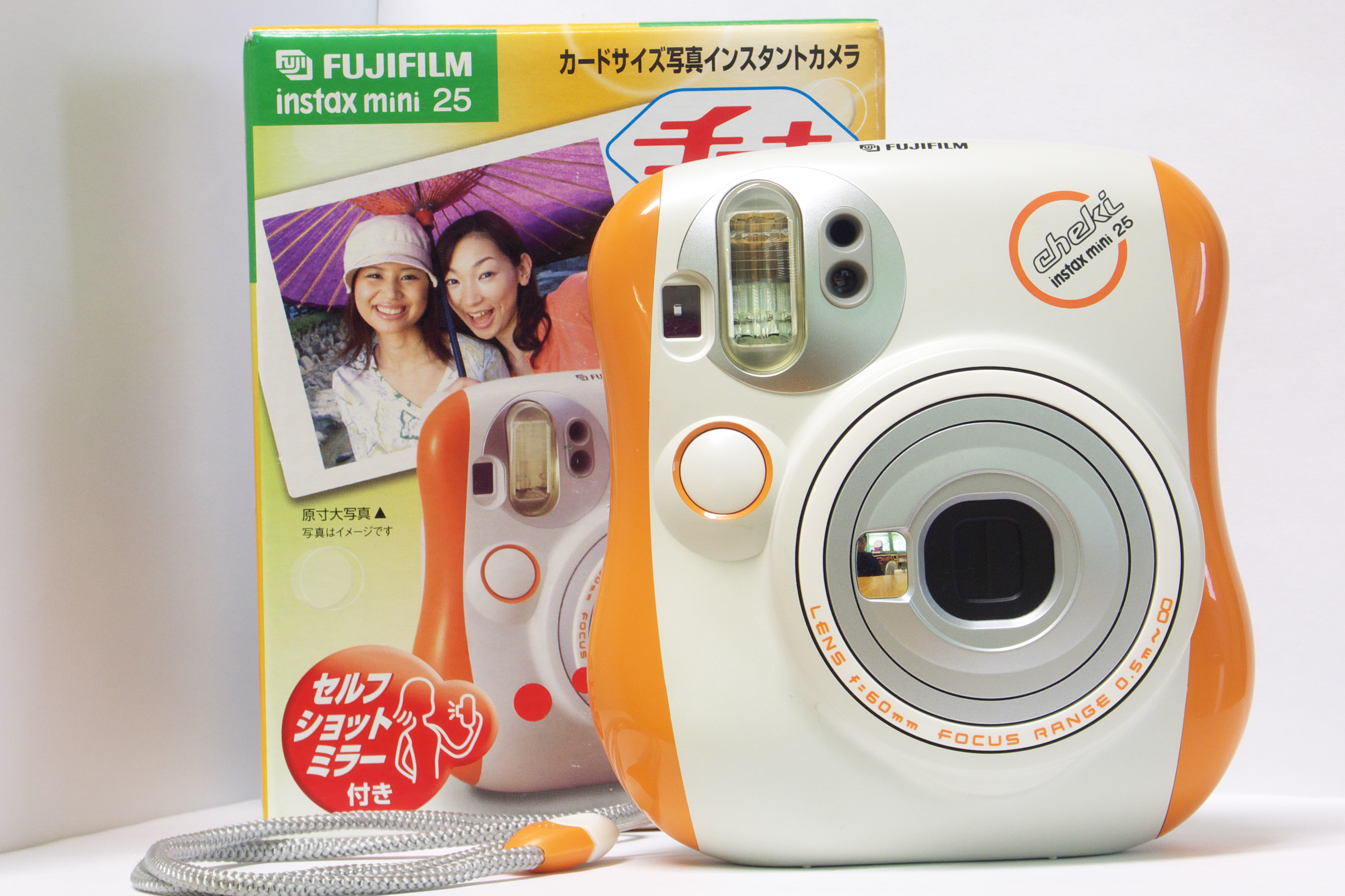 Fujifilm Instax Mini 25 instant camera (front view)